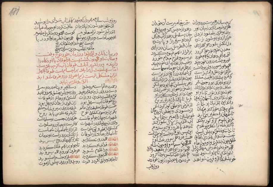 A page of Ibtida-Nama (The Book of the Beginning) by Sultan Walid